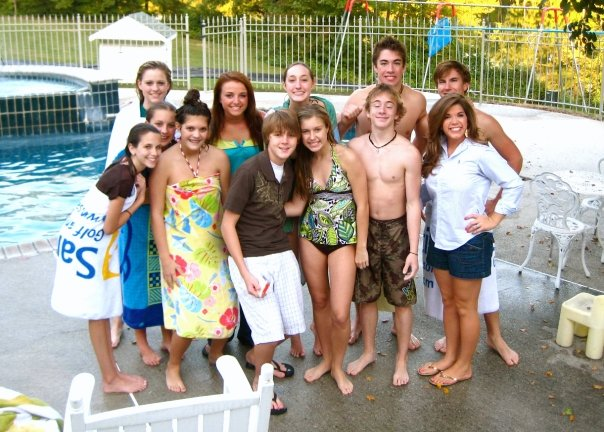 A group of American teens at a swimming party in the late summer.